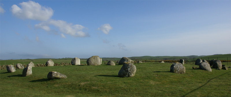 Torhouse Stone Circle, Dumfries and Galloway, Scotland